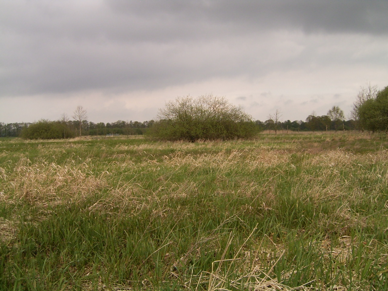 Fallow land of wet grassland in Northwestern Germany